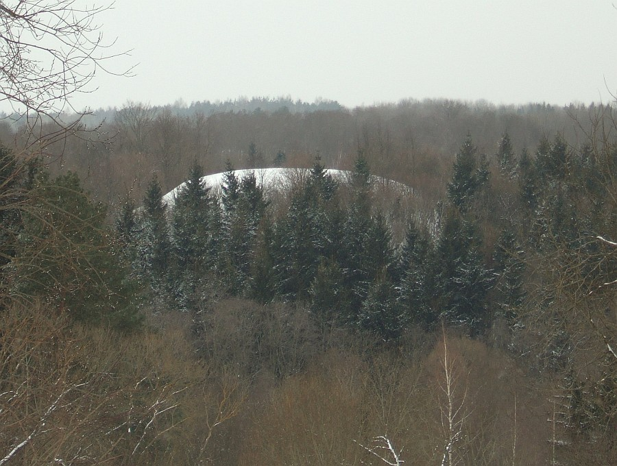 Hill fort Rokantiškės